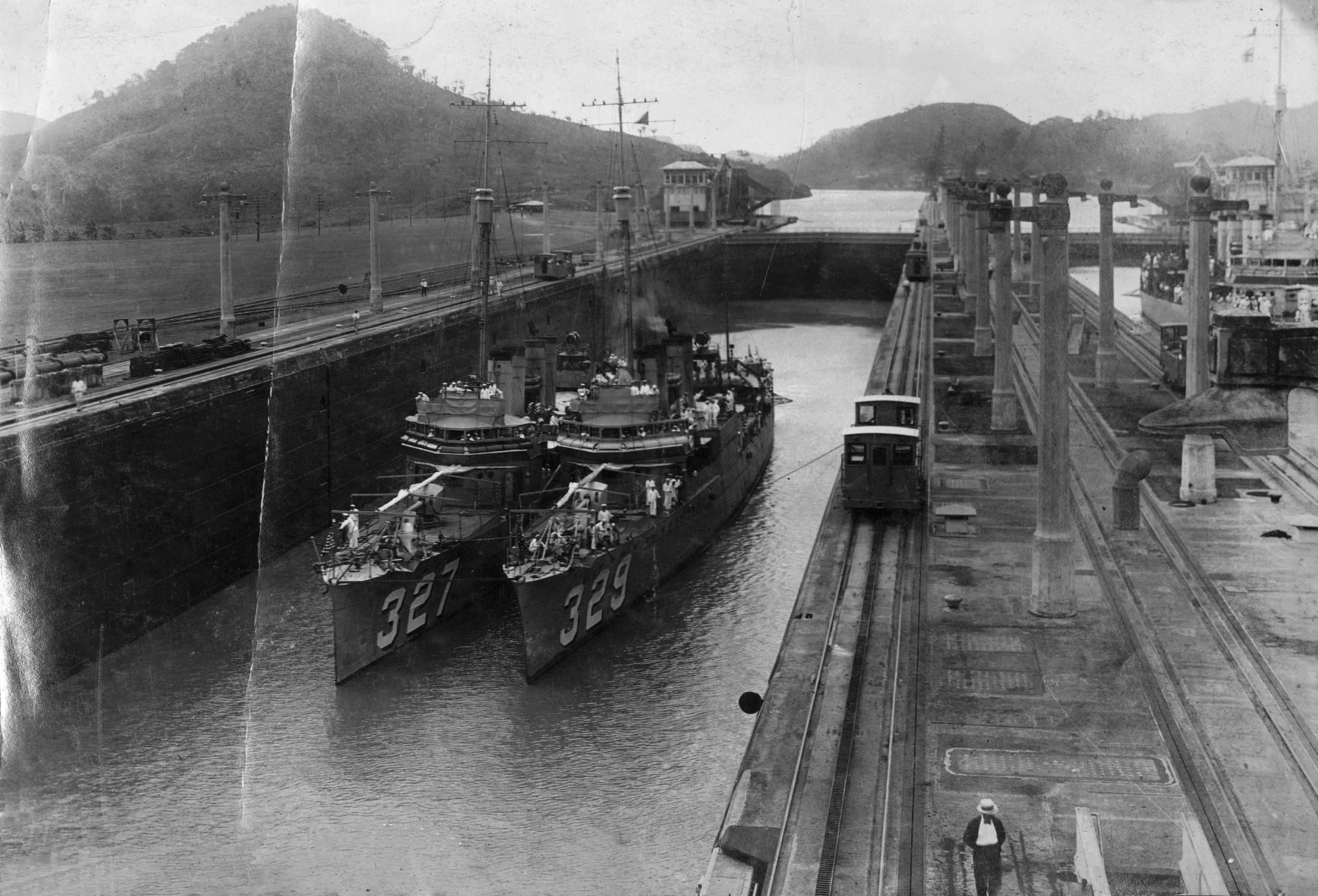 The U.S. Navy Clemson-class destroyers USS Preston (DD-327) and USS Bruce (DD-329) in the Pedro Miguel Locks in the Panama Canal, circa 1922. The ships, both of which were assigned to the Atlantic Fleet Destroyer Force, were participants in winter exercises in the Caribbean. Both ships were decomissioned on 1 May 1930 and scrapped.